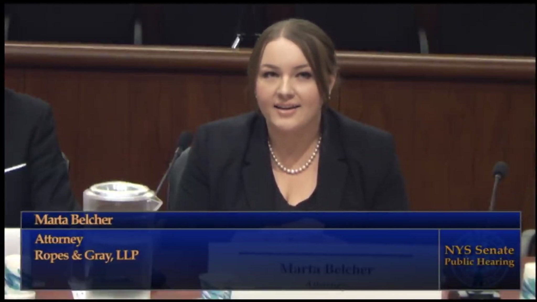 Marta Belcher testifying in the New York State Senate